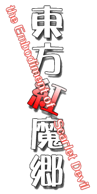 Official logo of the danmaku vertical scrolling shooter game Touhou 06, "東方紅魔郷 ～ the Embodiment of Scarlet Devil".